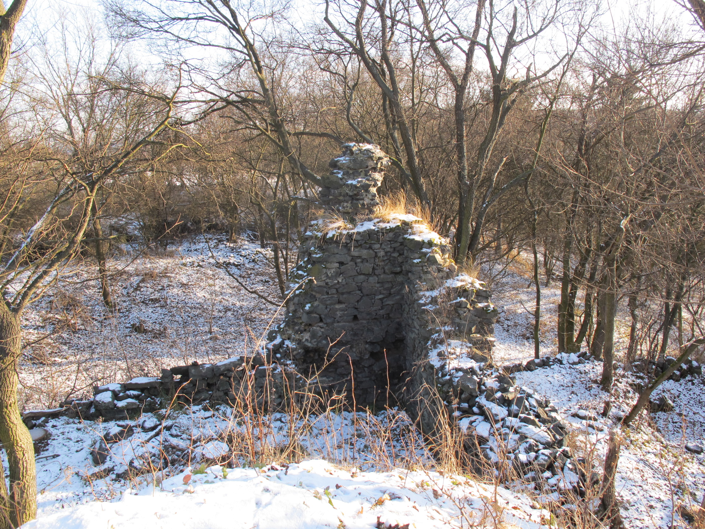 Křečov - Castle in the Czech Republic